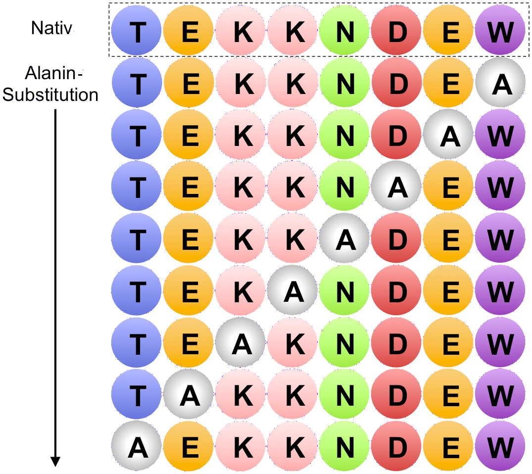 Alanine scan of hotspot residues from 1FCC.